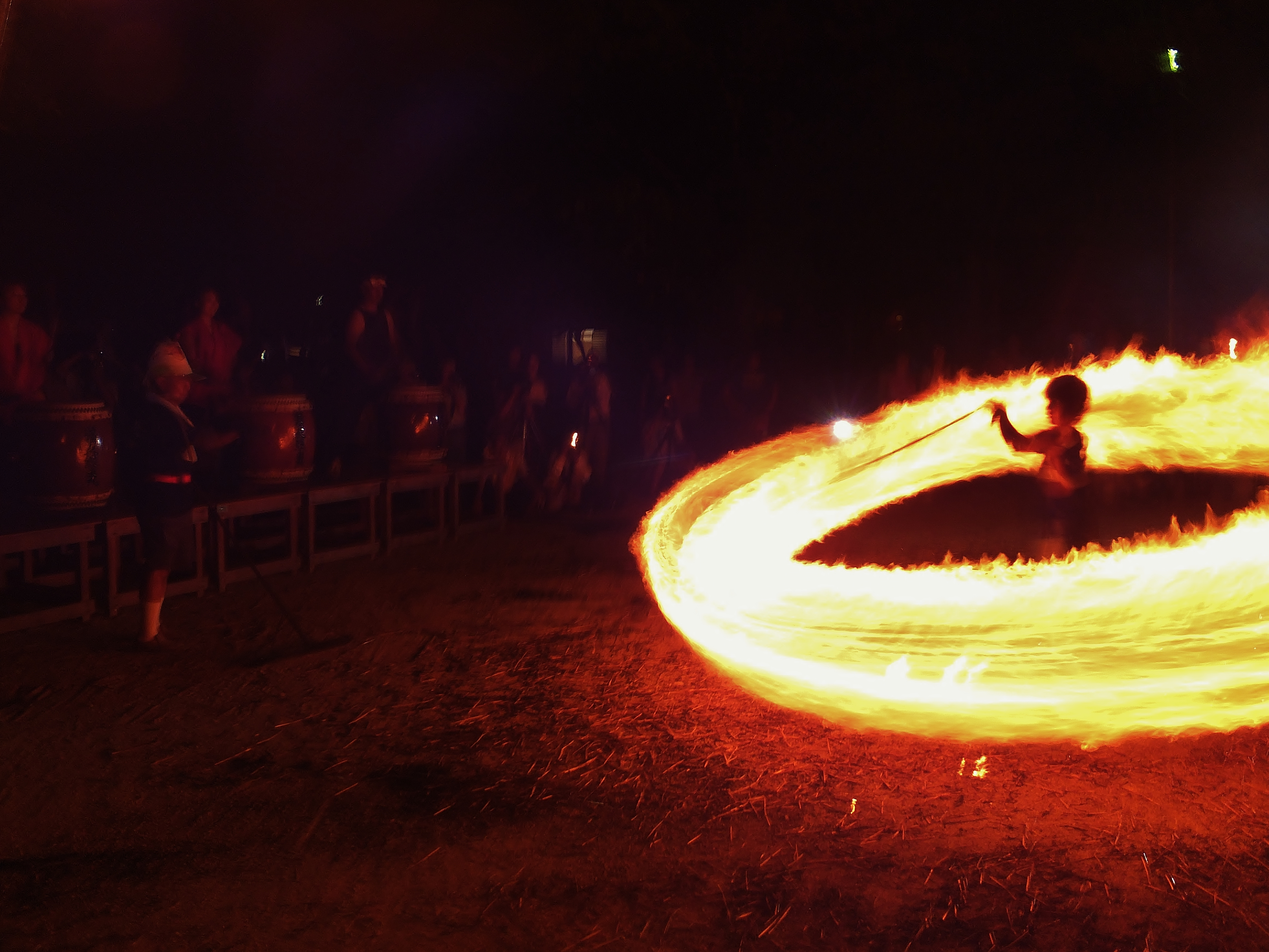 Taken at the Hi Matsuri (Fire Festival) in Izushi Town, Hyogo Prefecture, Japan.